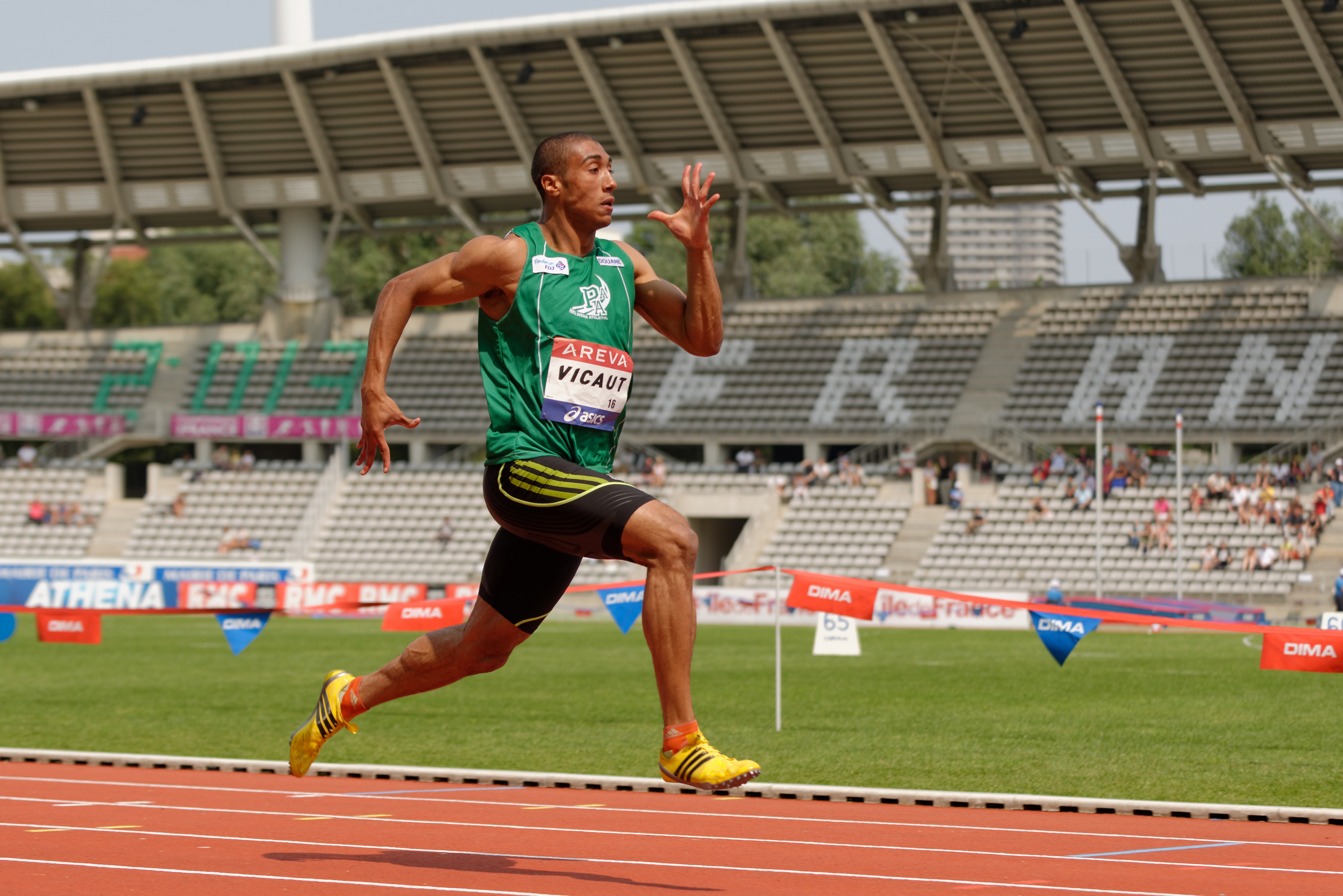 Jimmy Vicaut wins the second series of the men's 100-metre race in 9"95 during the French Athletics Championships 2013 at Stade Charléty in Paris, 13 July 2013.